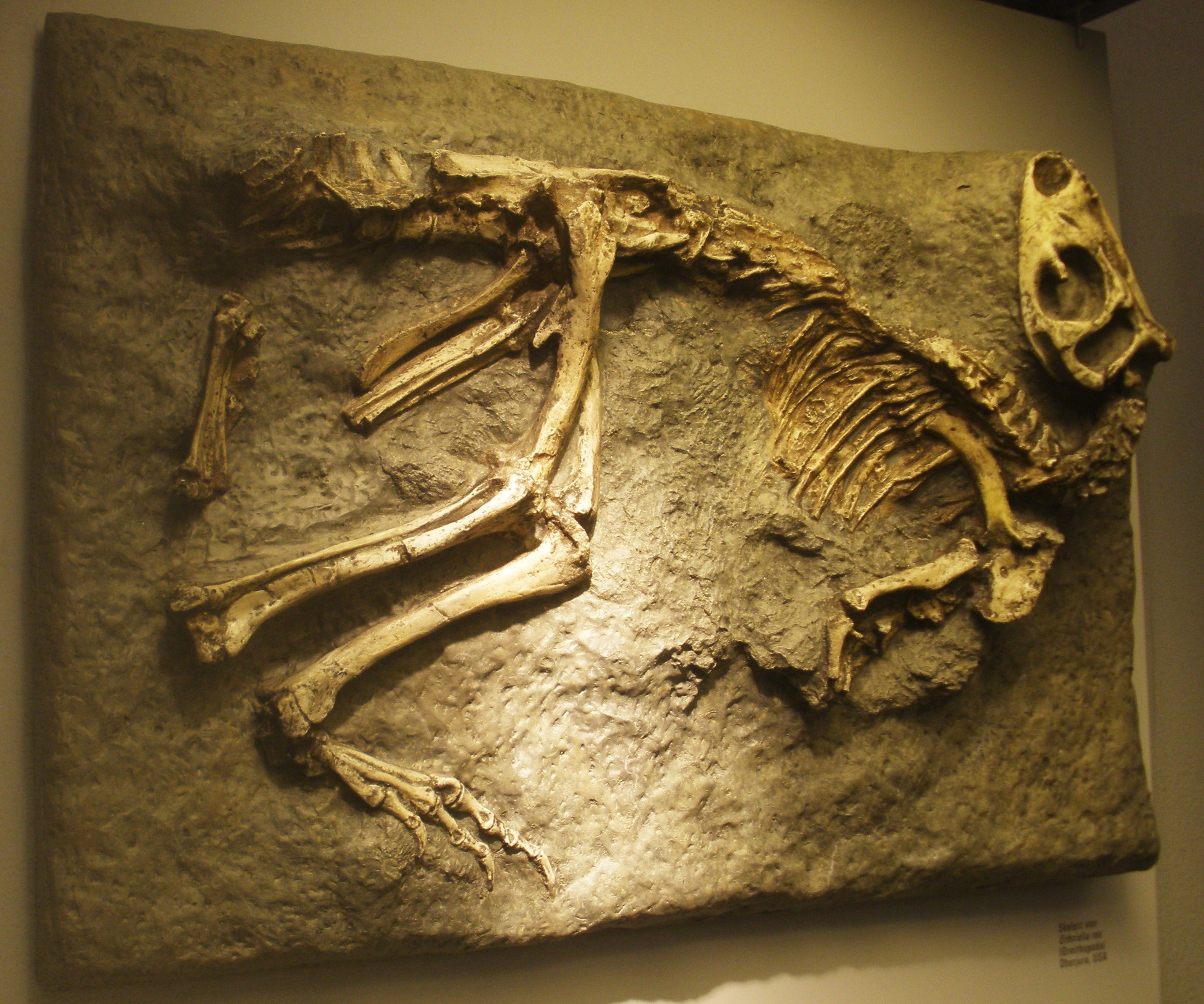 fossil othnielosaurus